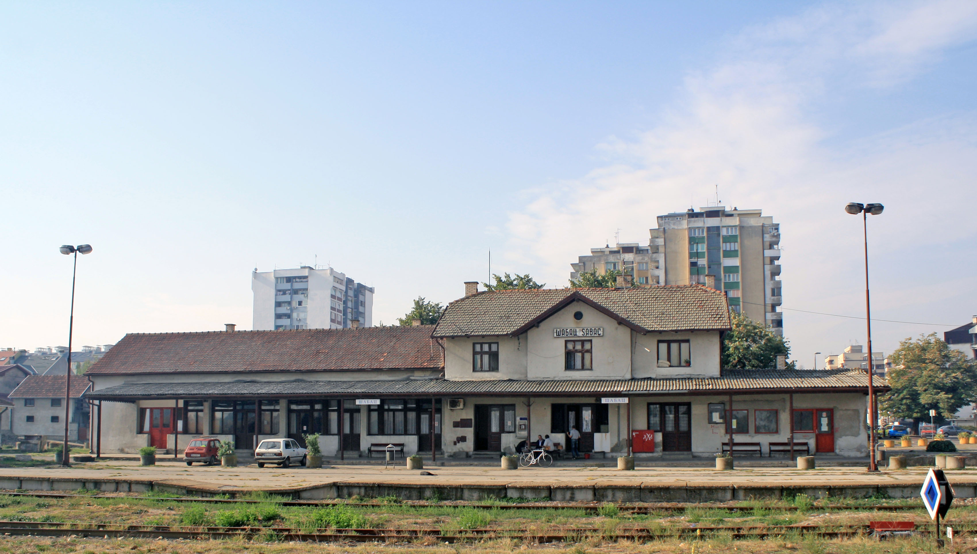 Šabac train station.